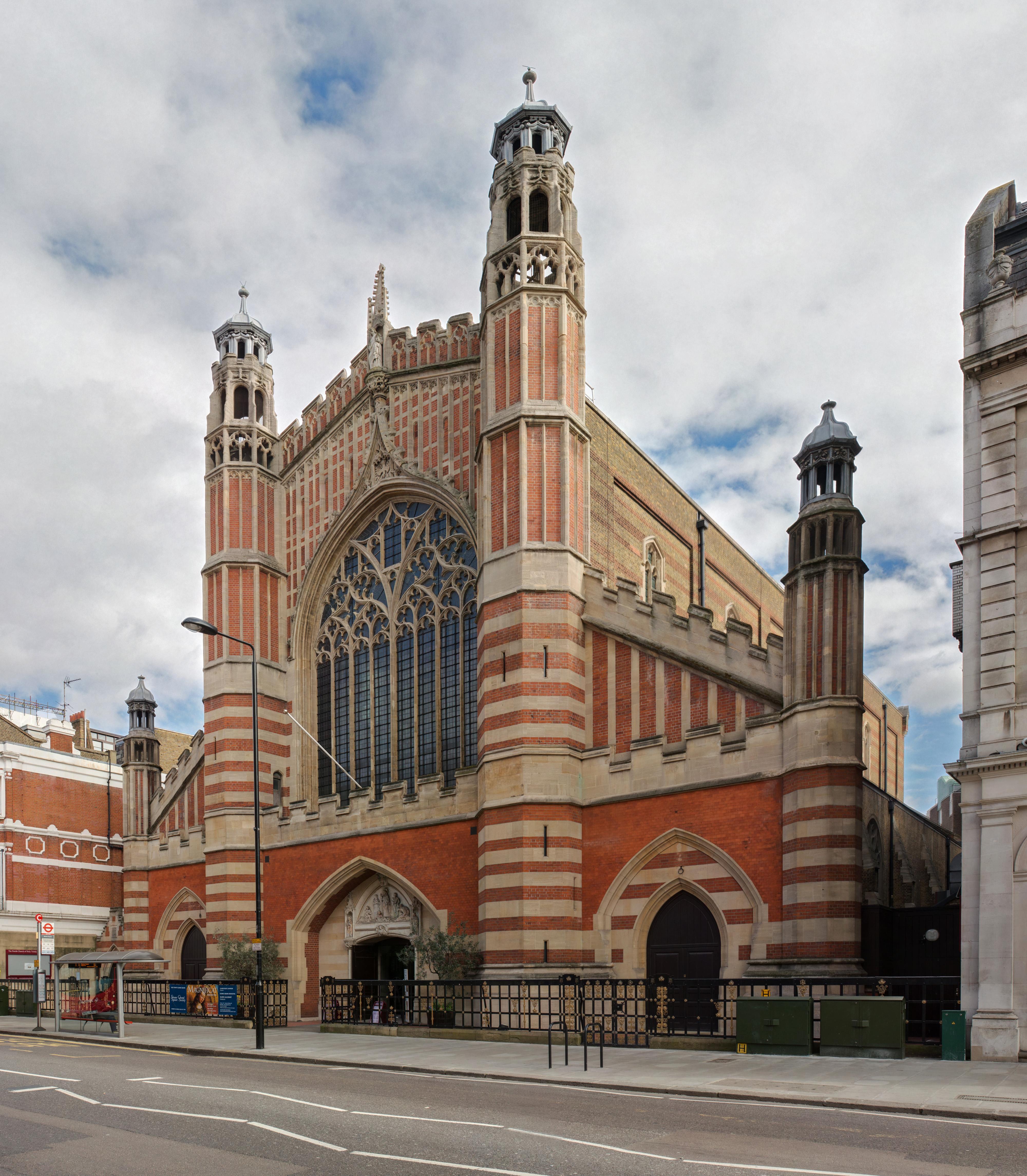 The exterior of the Holy Trinity Sloane Street Church in London, England.